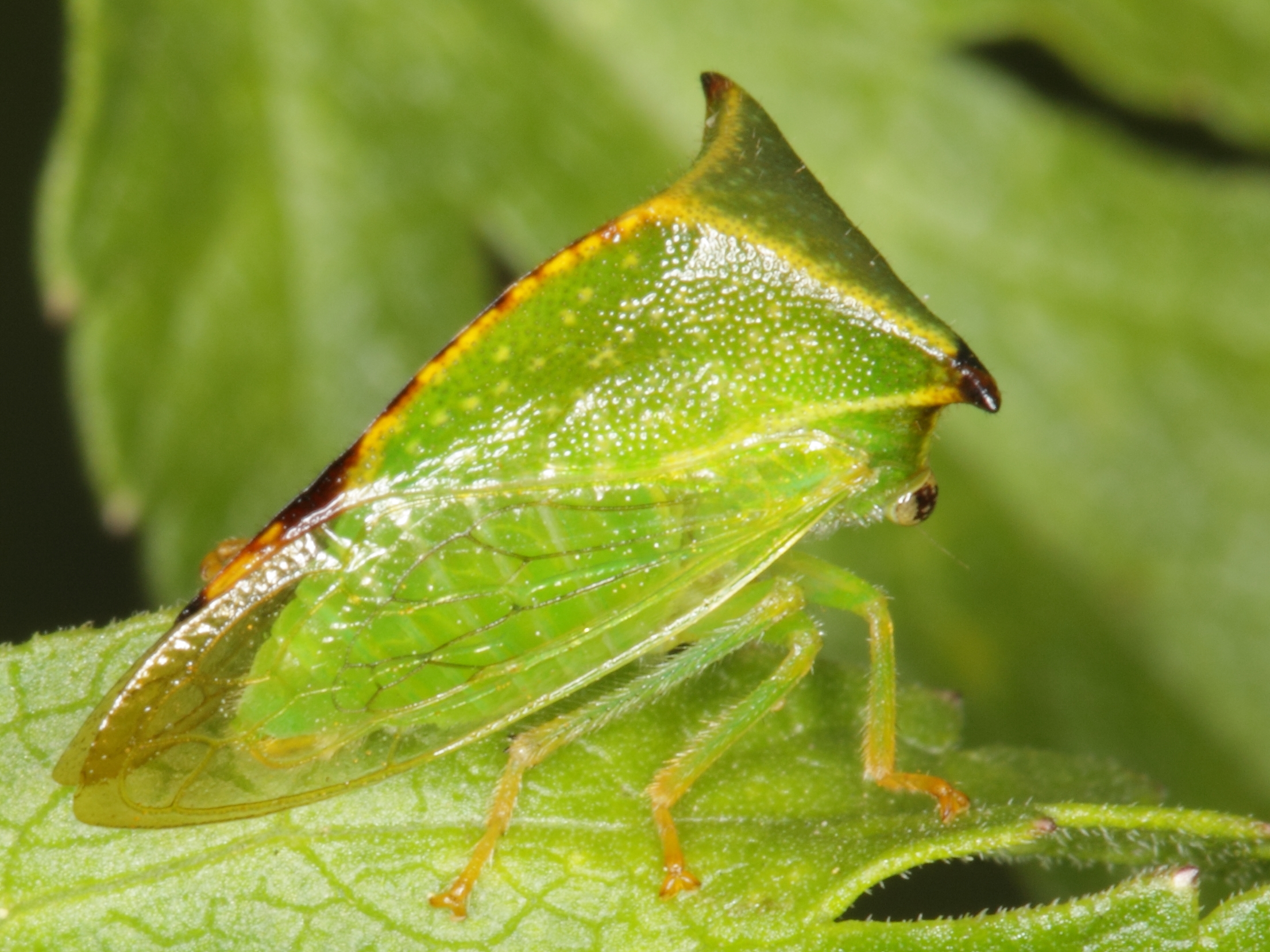 L: 7-10mm This "beauty" is another North American Invader - cousin of the native treehopper Centrotus cornutus - that threatens cultivators of Roses & Wine. This tree hopper feeds on various plants, for oviposition it prefers especially Rosa; Rosaceae like (Crataegus and fruit trees in general), but grapevines (Vitis, Vitaceae) and less common other wooden plants (groves) and sometimes this treehopper feeds on herbaceous plants, too. Phylum: Arthropoda Subphylum: Hexapoda Class: Insecta (insects, Insekten) Subclass: Pterygota Order: Hemiptera (true bugs, Schnabelkerfe) Suborder: Auchenorrhyncha (Zikaden) Infraorder: Cicadomorpha (Rundkopfzikaden) Superfamily: Membracoidea Family: Membracidae (Treehoppers, Buckelzirpen) Subfamily: Smiliinae STÅL, 1866 Tribus: Ceresini GODING, 1892 Genus: Stictocephala STÅL, 1869 Stictocephala bisonia KOPP & YONKE, 1977 (buffalo treehopper, Amerikanische Büffelzikade) some info: more info (German): NE-Germany, Berlin: vic. Schönefeld (airport), ca. 40-50m asl., 18.08.2011 ________________________________________________________________________ 100mm macro 2.8 (canon), 1/125s, f/16, ISO200, 0EV, ring-flash, hand-held IMG_4350